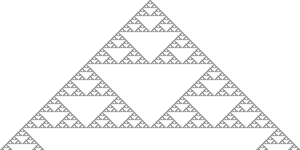 Response of one-dimensional cellular automaton rule 90 to an input pulse, 300 iterations